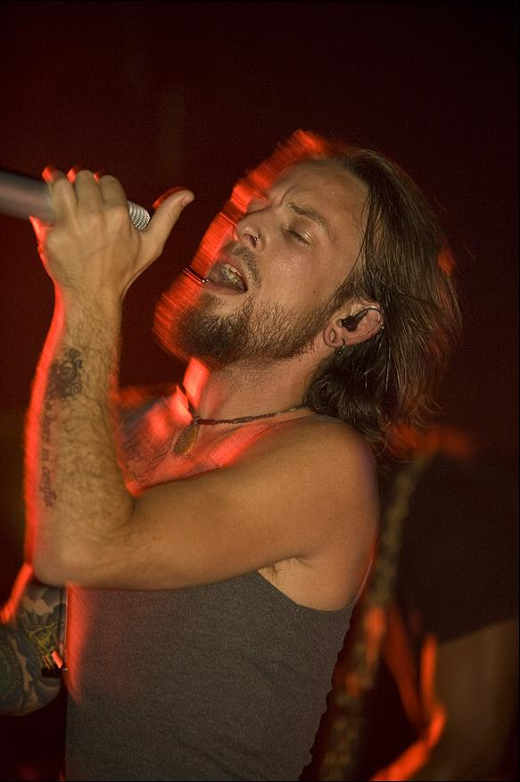 Aruban/Dutch rock singer Roger Peterson of Intwine performing at the Köln Underground concert on August 14th, 2009.